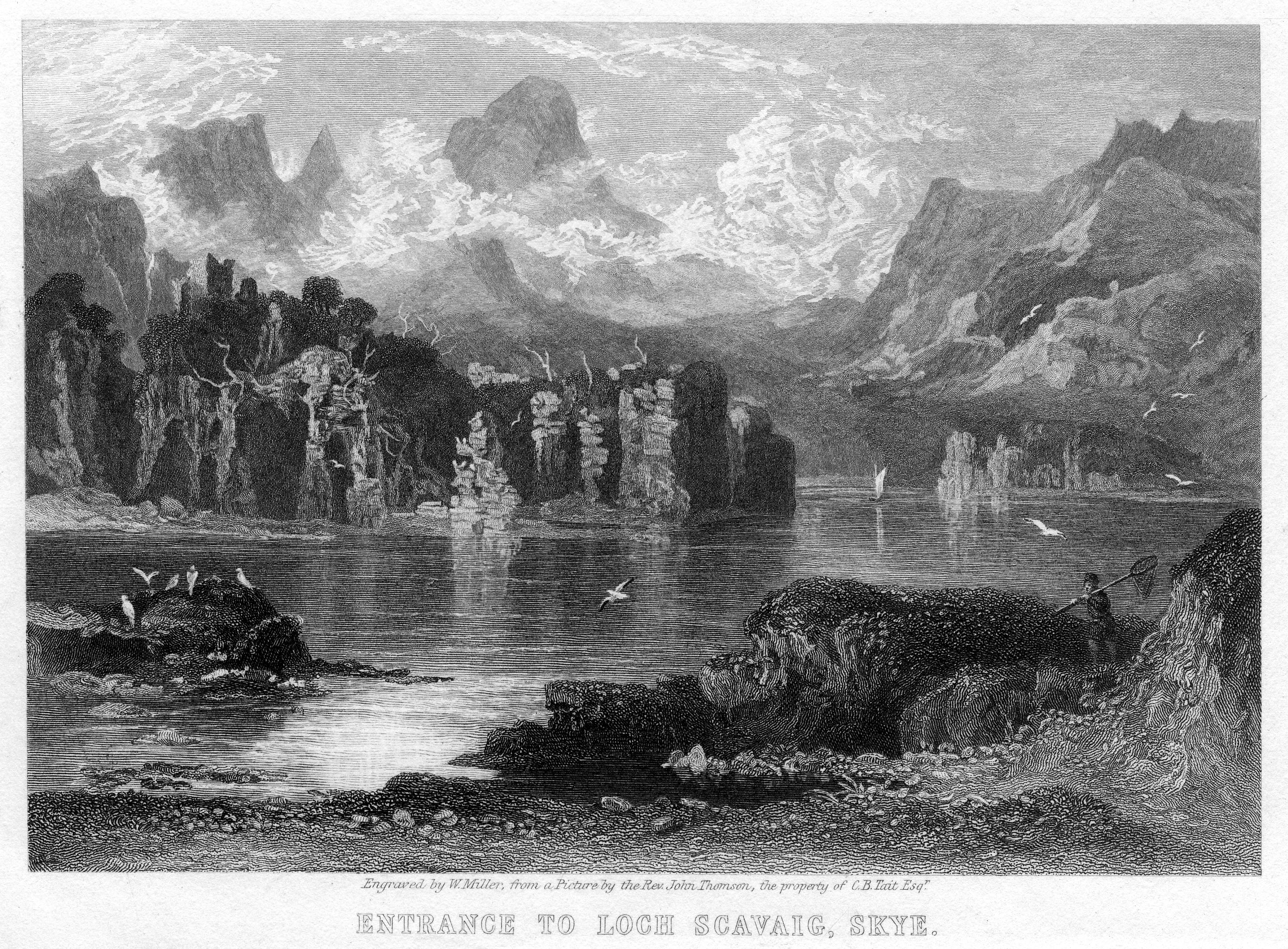 Entrance to Loch Skavaig, Skye engraving by William Miller after Rev john Thomson, published in Black's Picturesque Tourist of Scotland with an Accurate Travelling Map, Engraved Charts, and Views of the Scenery; Plans of Edinburgh and Glasgow; and a Copious Itinerary. Adam & Charles Black, Edinburgh; various editions from 1846